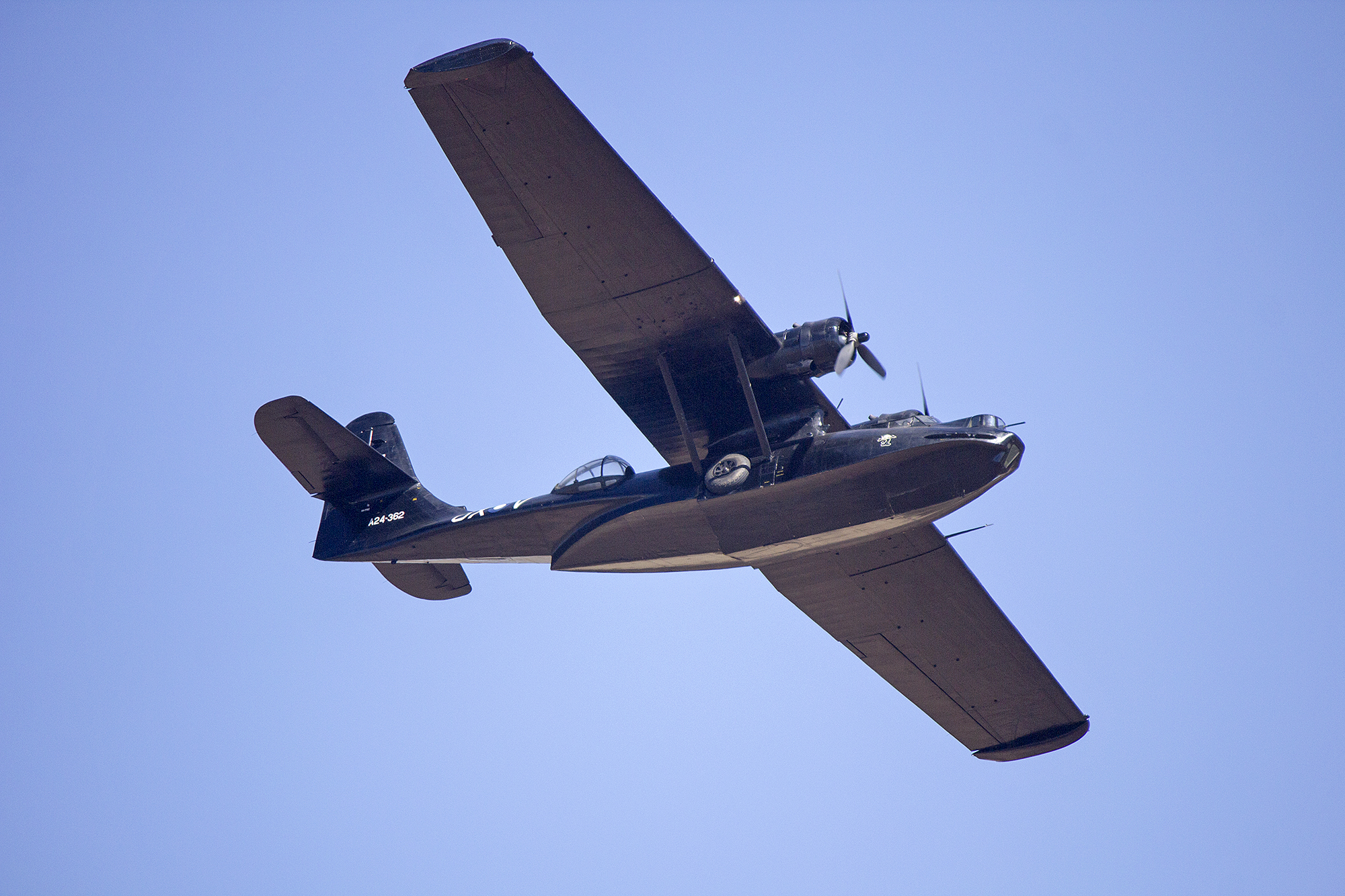 Historical Aircraft Restoration Society (VH-PBZ) Consolidated PBY Catalina, in RAAF A24-362 livery, doing an flying display at the 2013 Avalon Airshow.